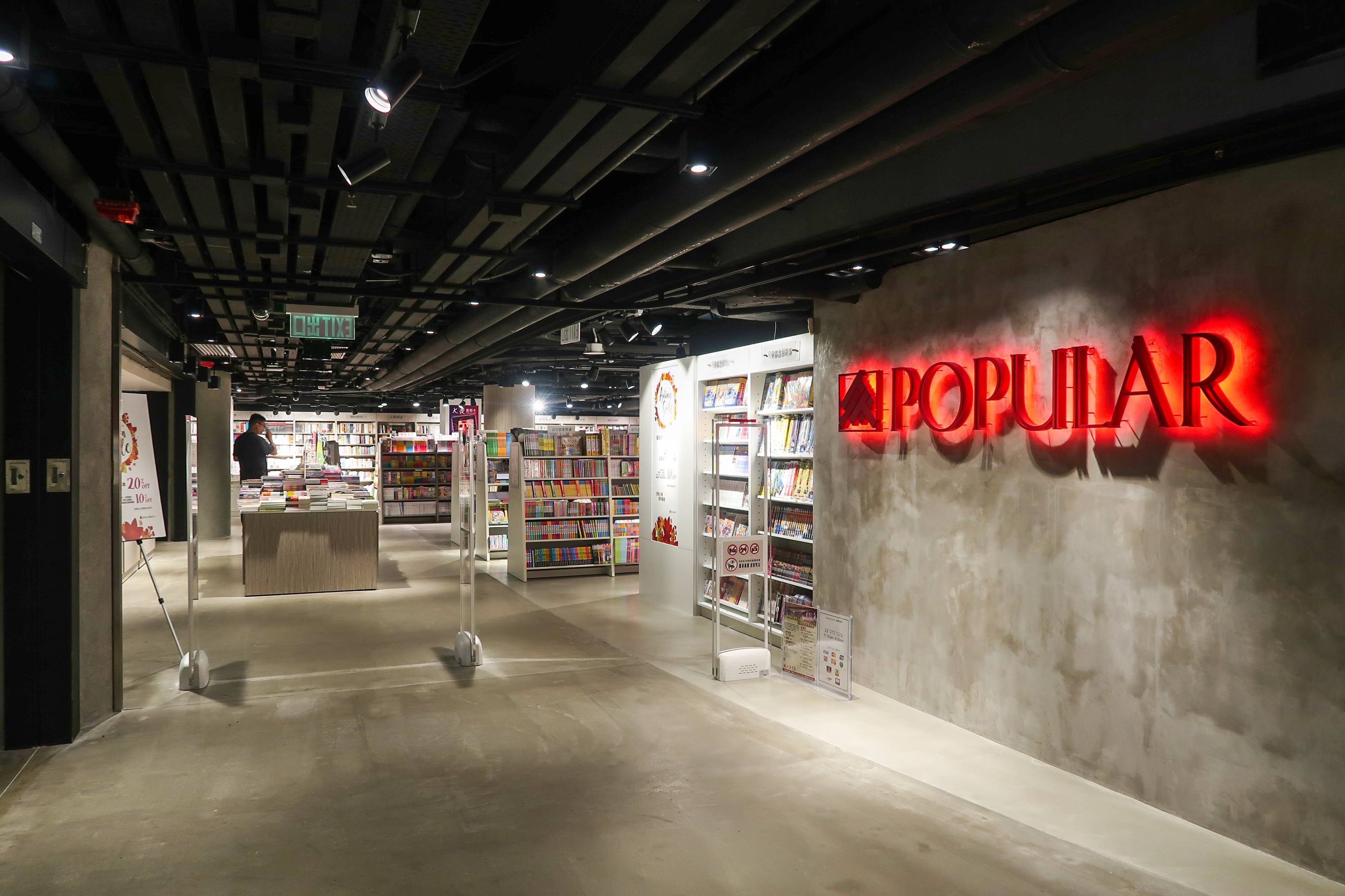 700 Nathan Road Popular Book Store